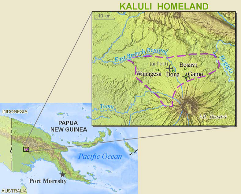 A map of the Kaluli's homeland. According to the website's terms of use, all maps created by the project are public domain.